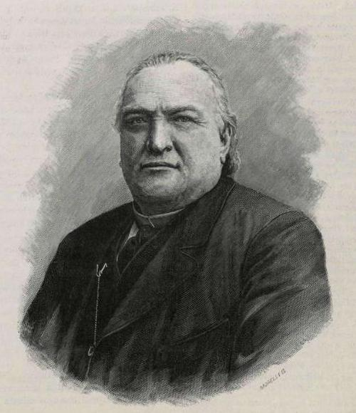 Portrait of the bishop Domokos Szász